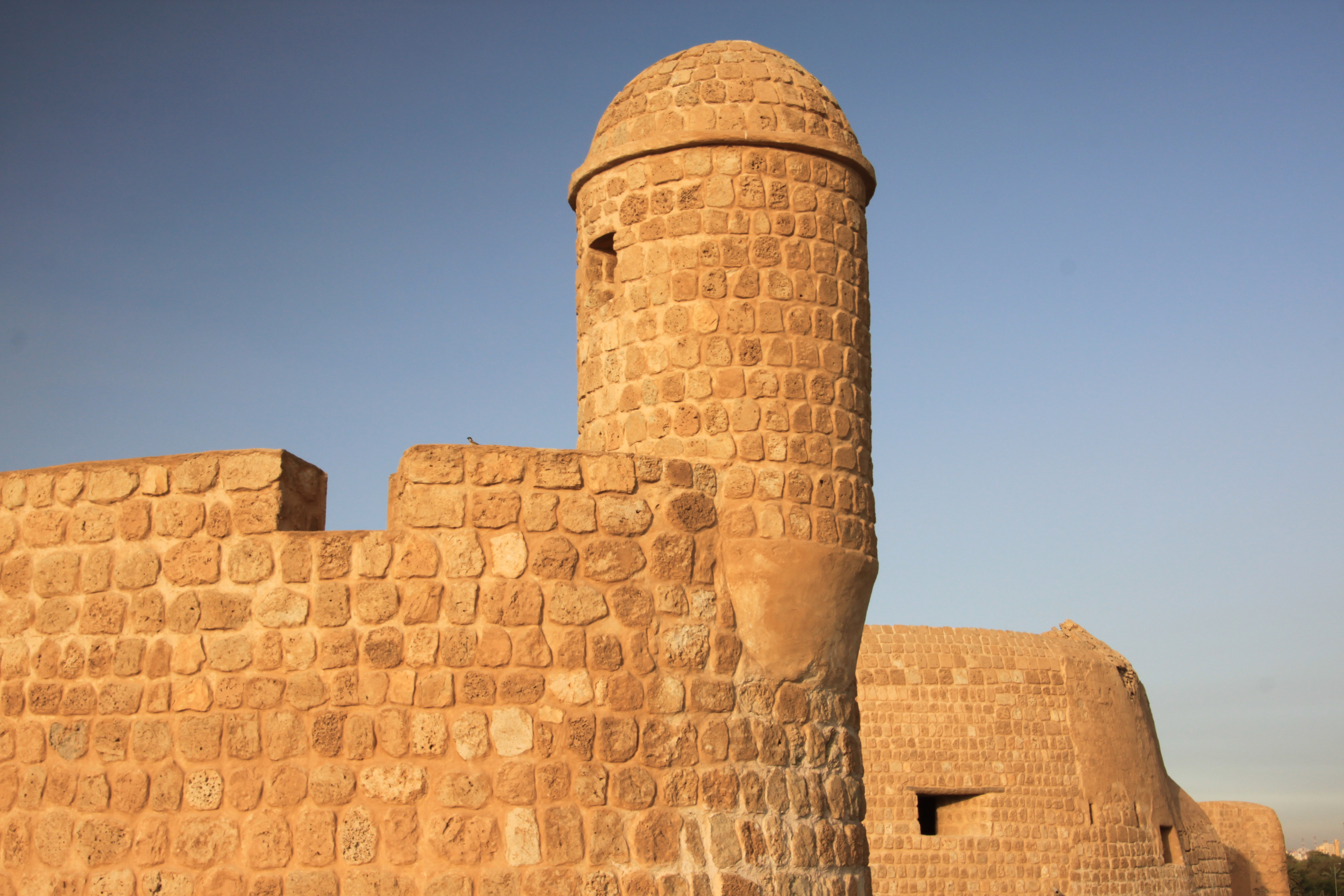 View on the Fort Bahrain. Manama, Bahrain